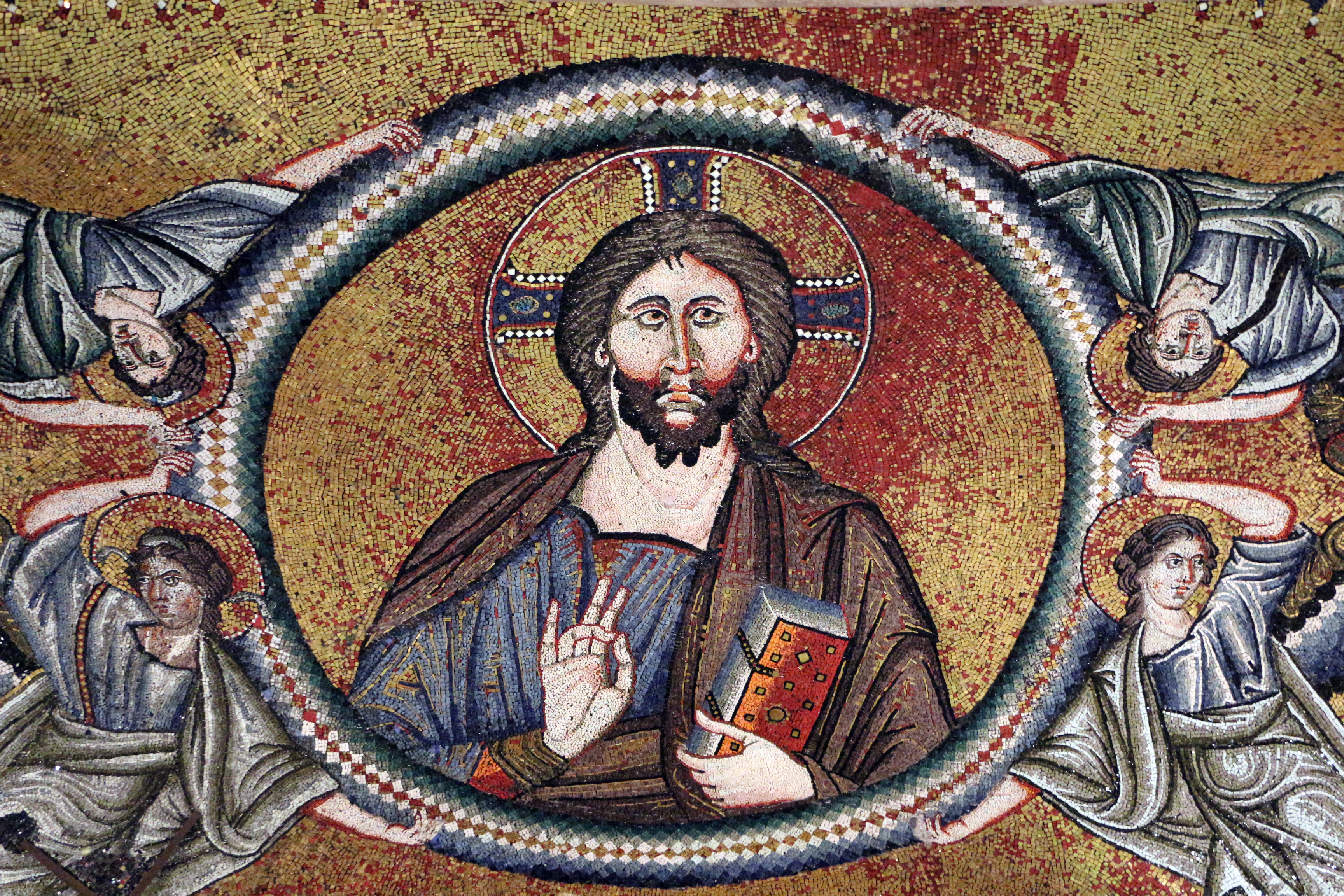 Sancta Sanctorum (Rome)